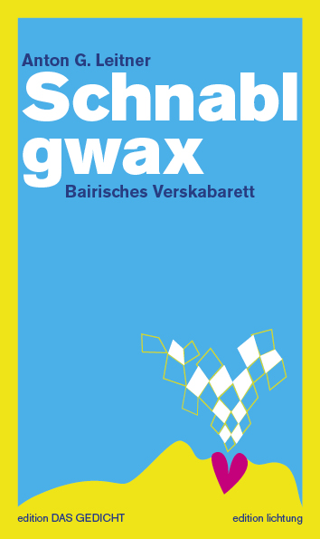 Cover illustration by Peter Boerboom & Carola Vogt, Münsing, for edition DAS GEDICHT, Weßling, and edition lichtung, Viechtach